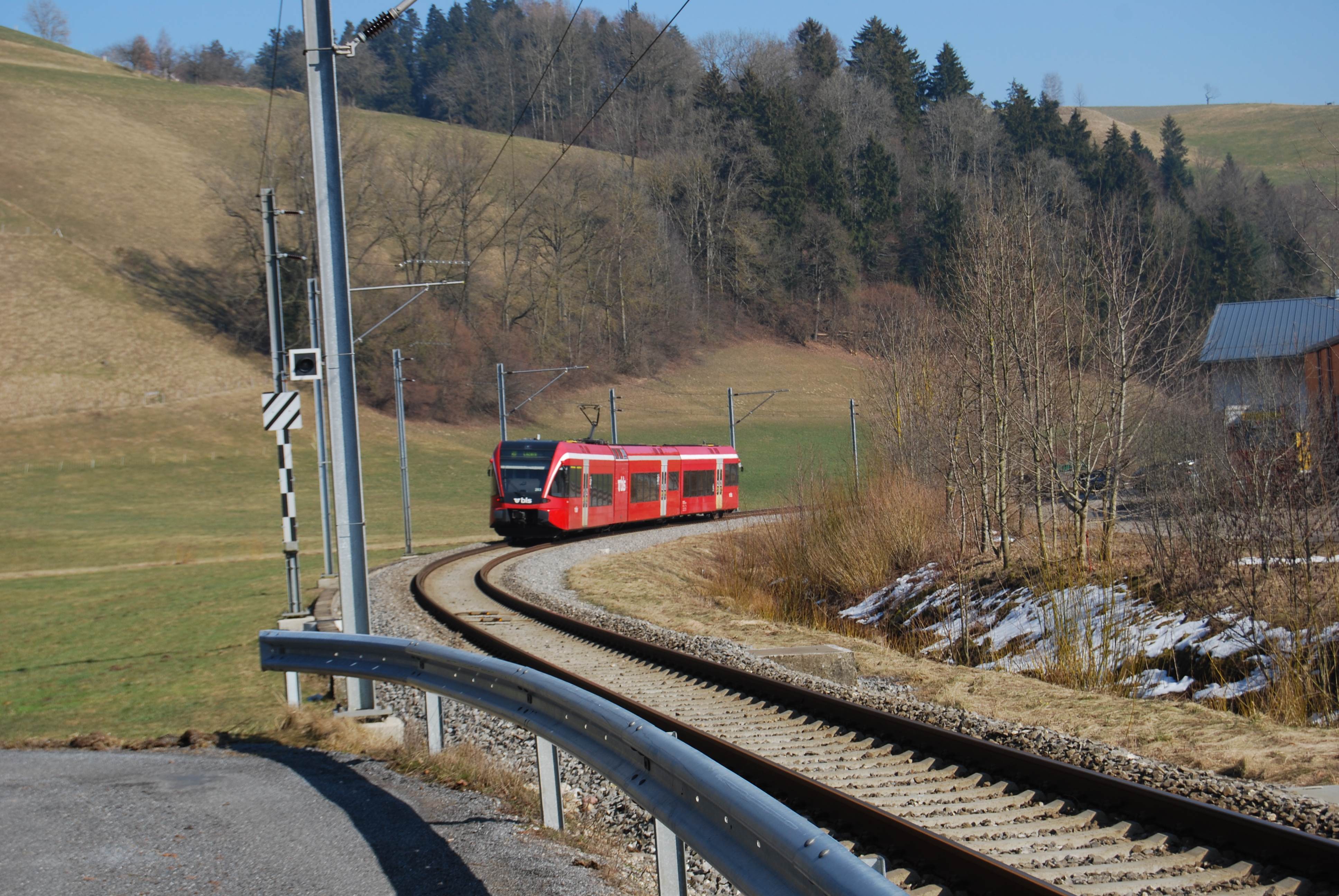 Haltestelle, municipality of Gondiswil, canton of Bern, Switzerland